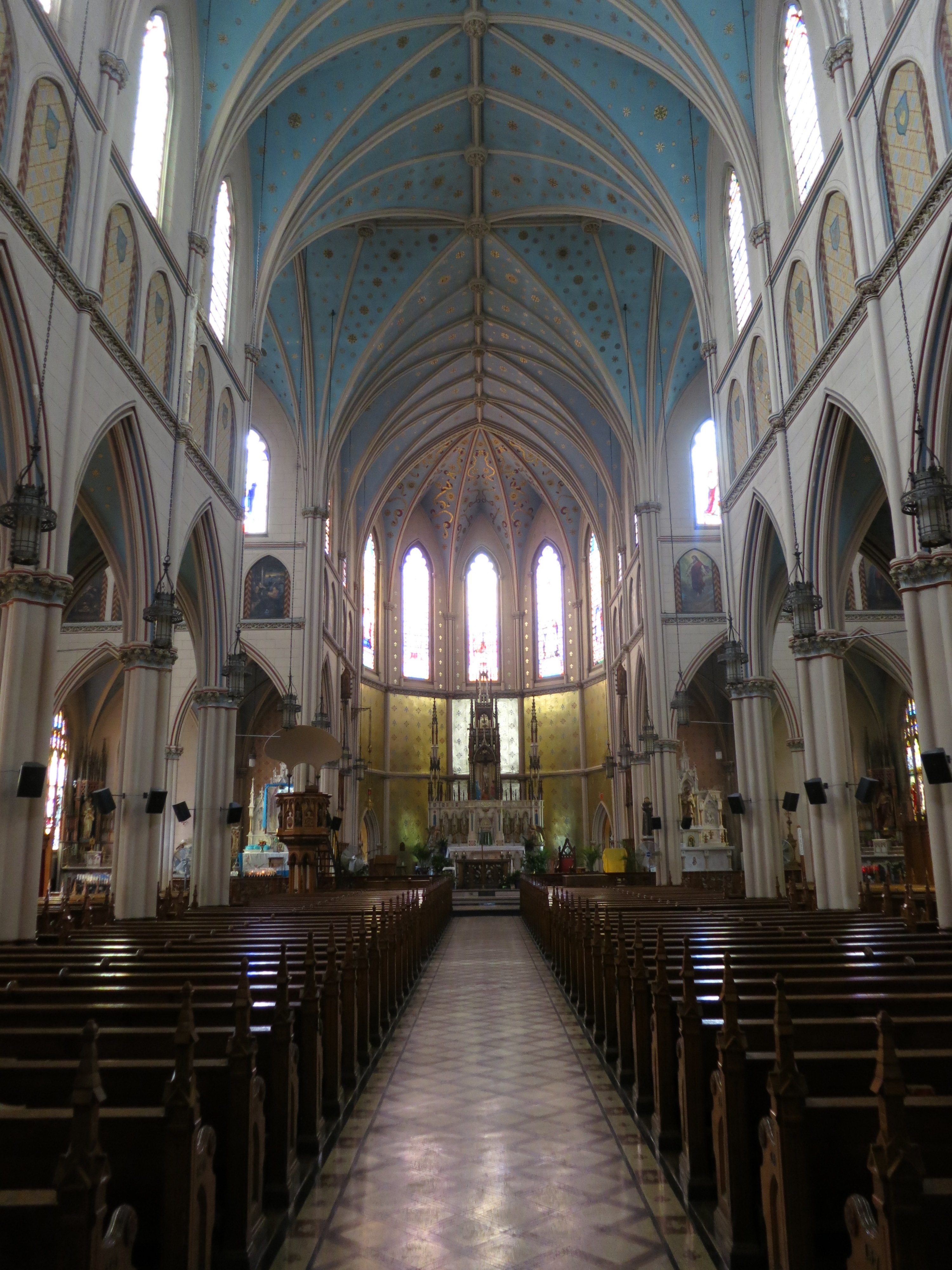 Sainte Anne de Detroit Catholic Church (Detroit, MI) - interior, nave